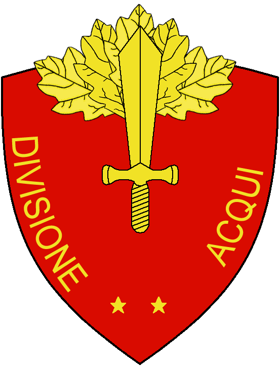 Coat of Arms of the Italian Army Division Acqui as conferred by the Army General Staff in 2016